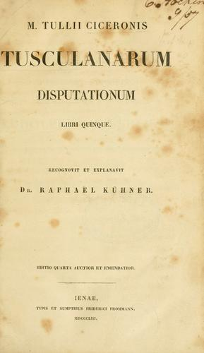 Cicero, Tusculanae disputationes (Tusculanarum disputationum libri quinque. Recognovit et explanavit Raphaël Kühner. Ed. 4. auctior et emendatior). Latin. 1853.